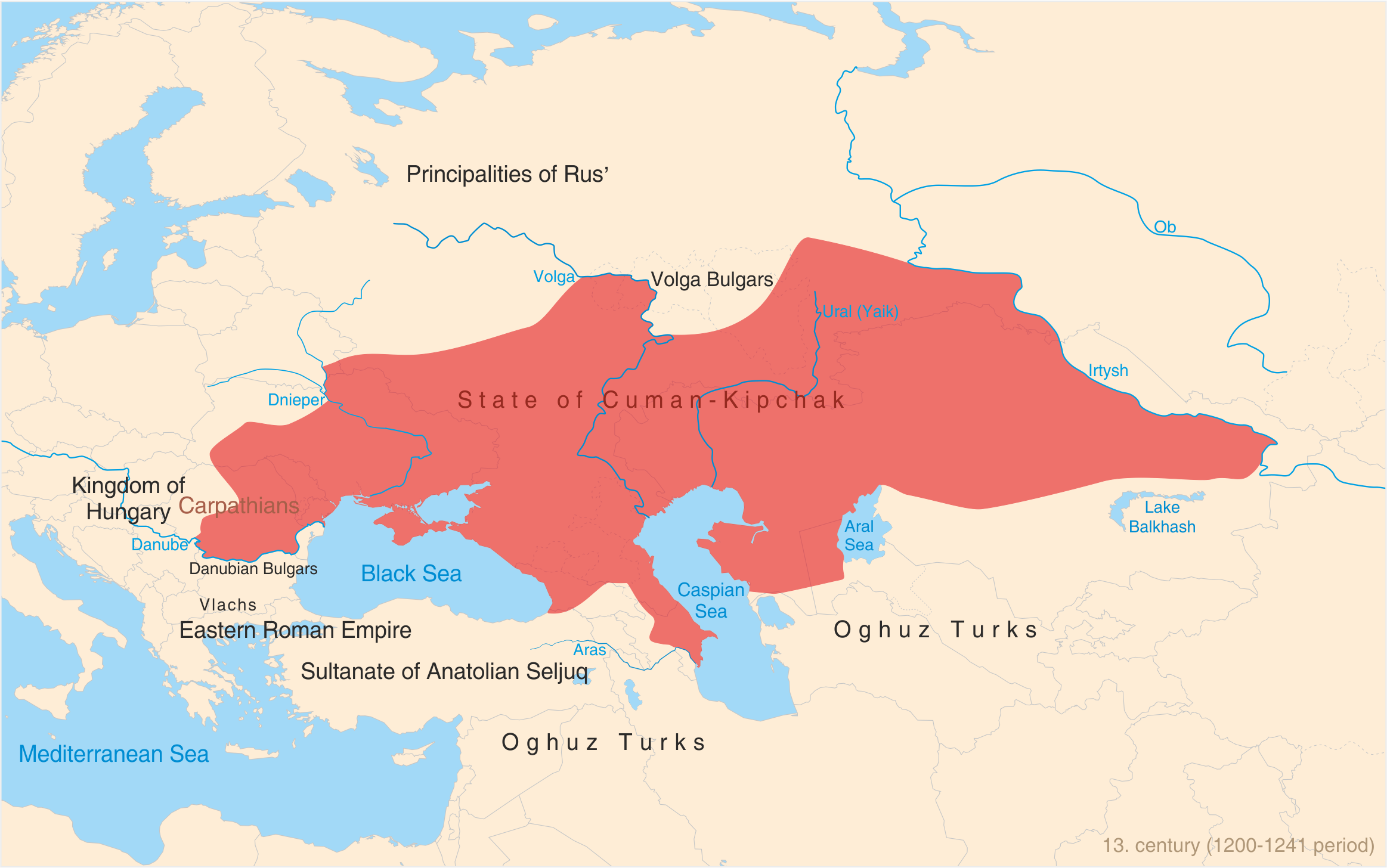 Map of State of Cuman-Kipchaks in the 13th Century (1200-1241 period) with todays (2011) borders.